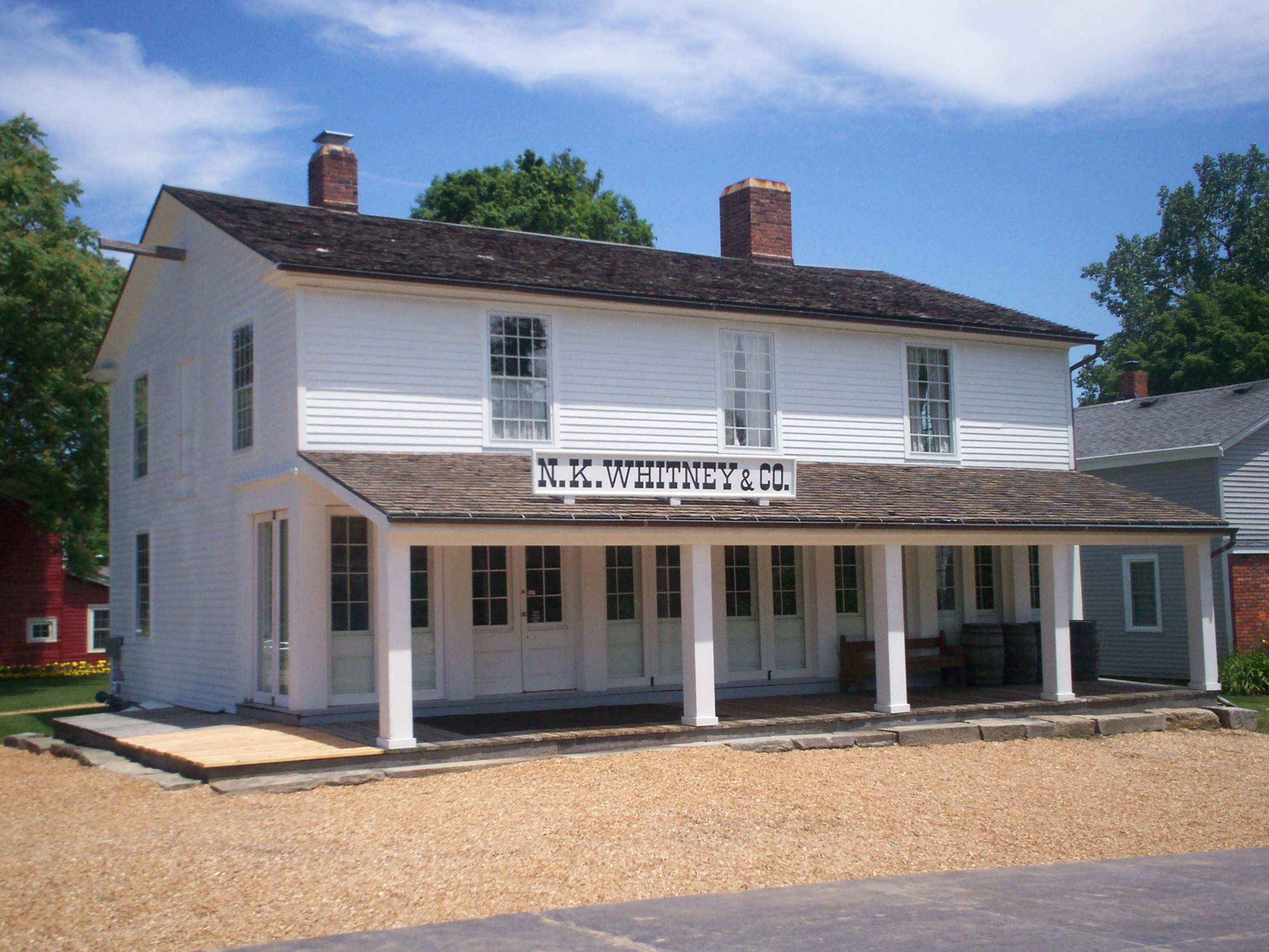 Outside view of the Newel K. Whitney Store in Kirtland, Ohio, listed on the National Register of Historic Places. It played a key role in the early development of the Latter Day Saint movement and is today owned by and operated as a historical site of The Church of Jesus Christ of Latter-day Saints as part of Historic Kirtland Village.